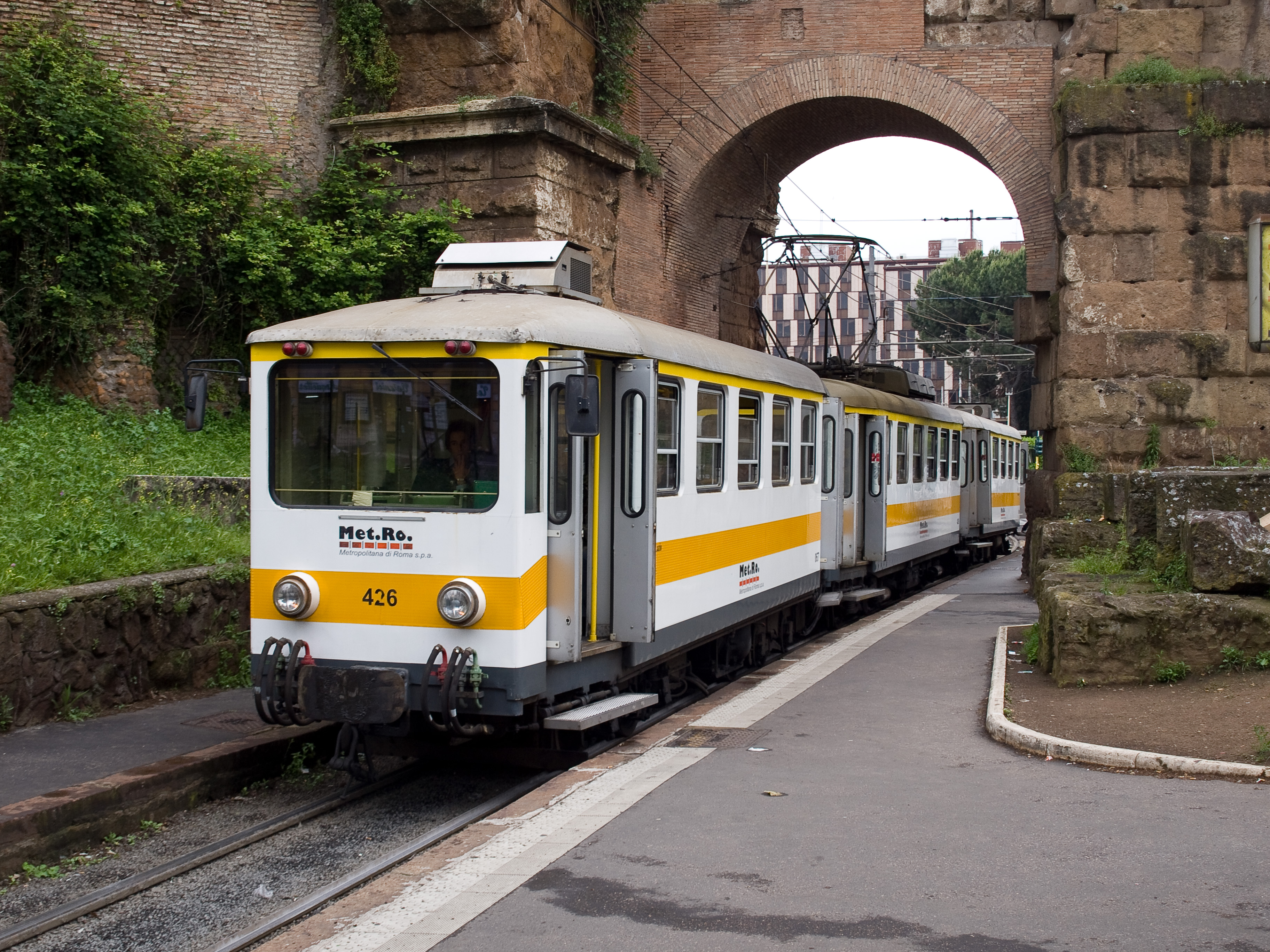 Porta Maggiore, narrow gauge electric multiple unit, Roma